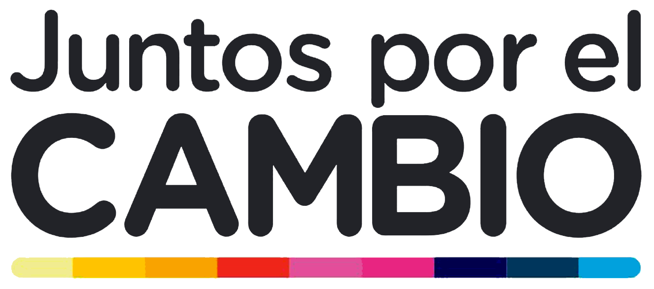 Symbol of Juntos por el Cambio